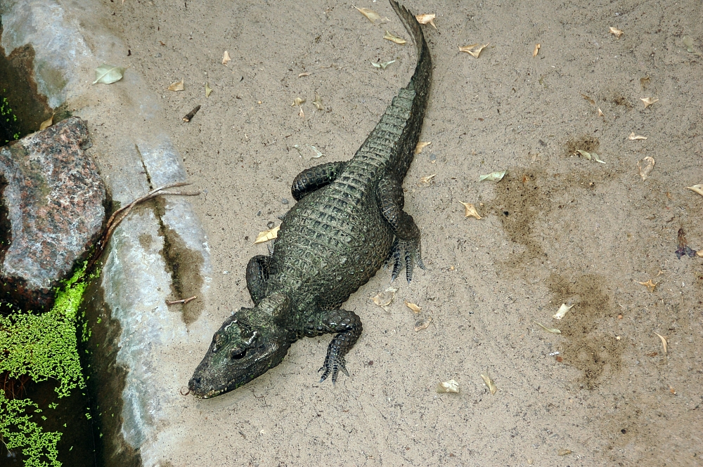 Osteolaemus tetraspis, Zoological Garden, Berlin, Germany